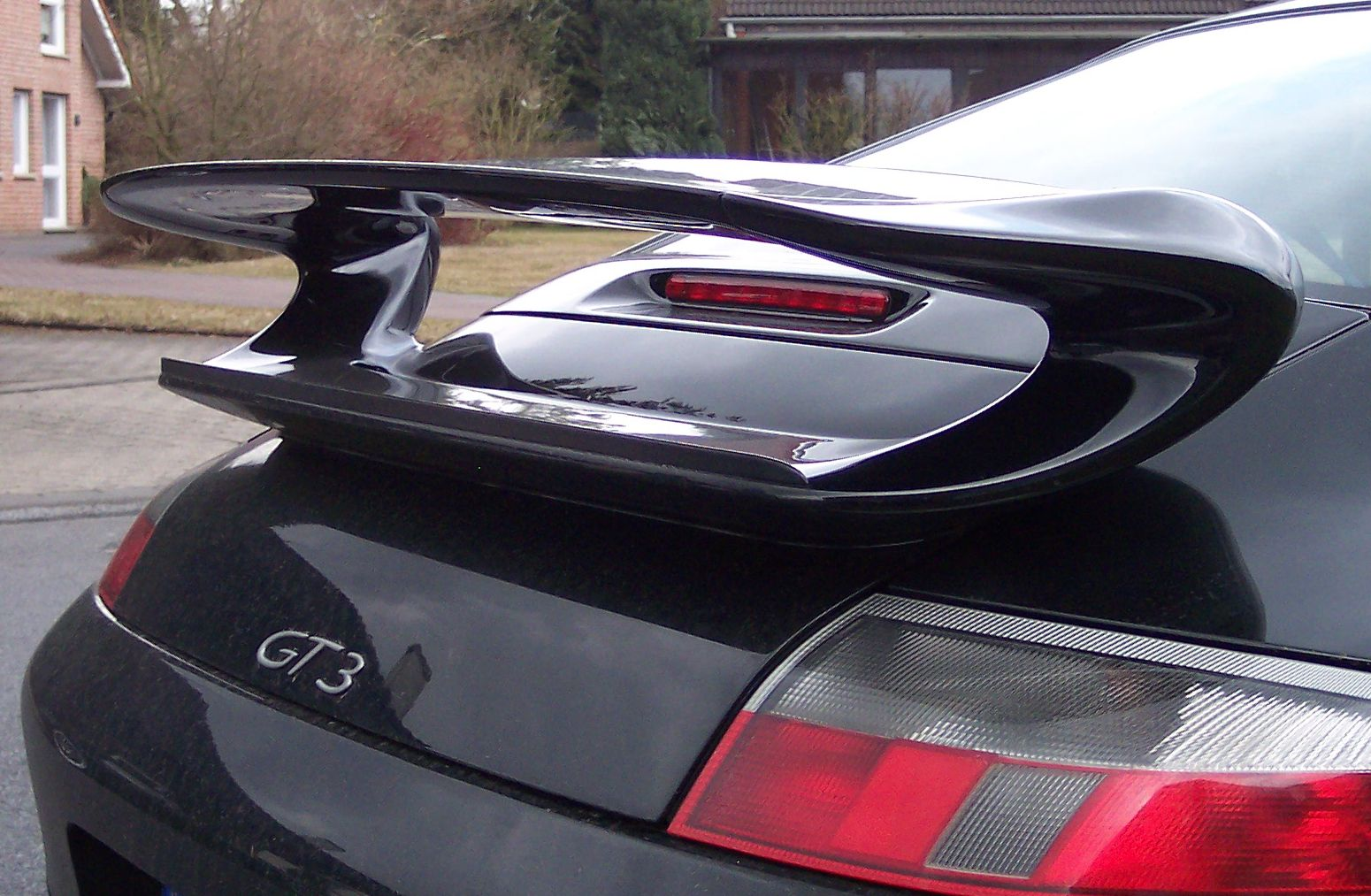 Porsche 911 GT3 type 996 (1999)